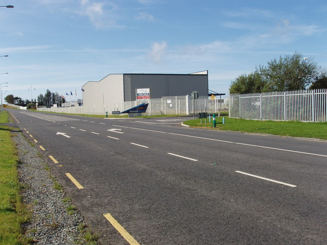 Waterford Airport entrance at Ballygarran, Waterford, Ireland